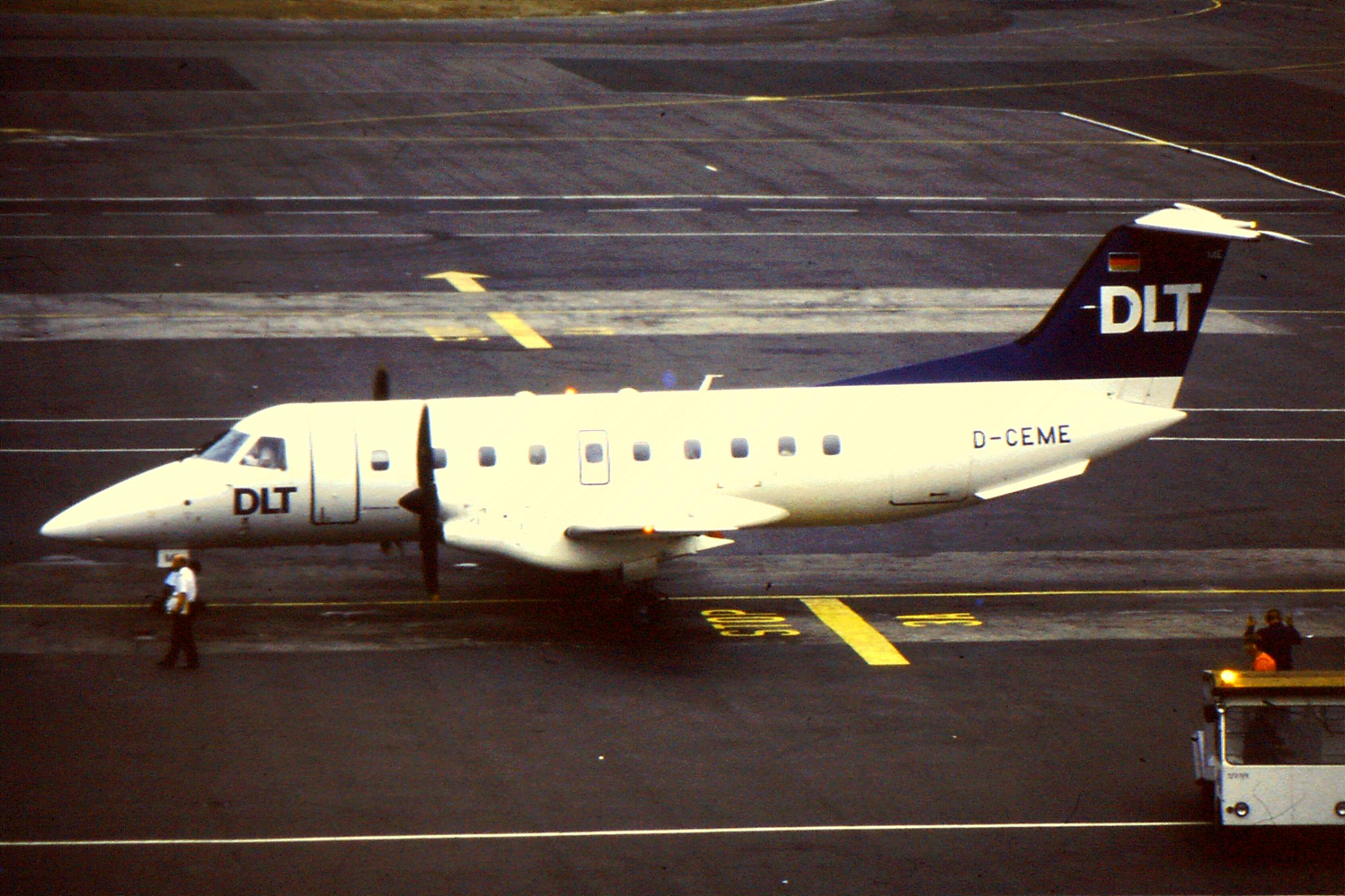 Operating the regular service to DUS in the early 1990's on behalf of Lufthansa.